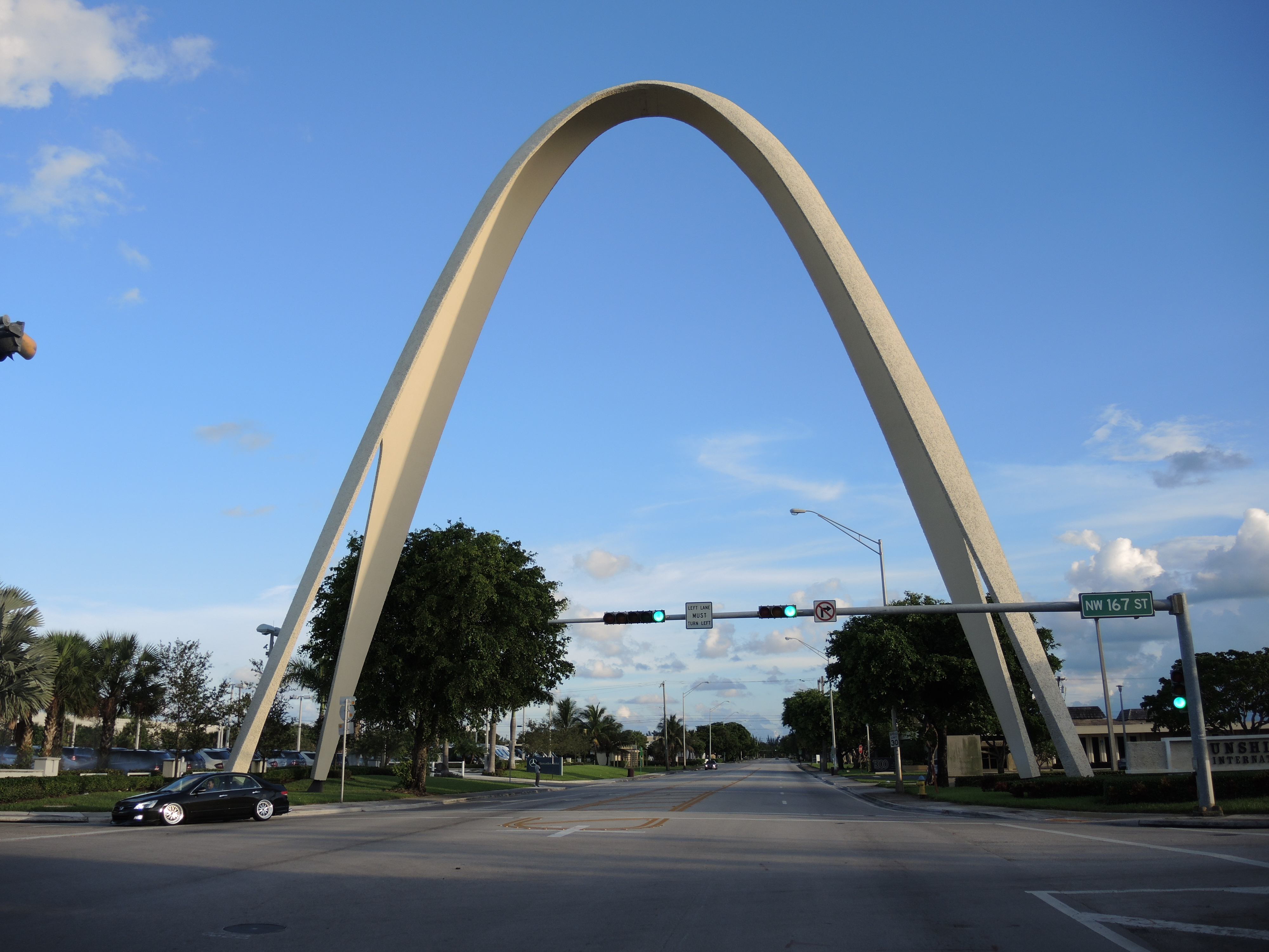 Sunshine State Arch, Miami Gardens FL